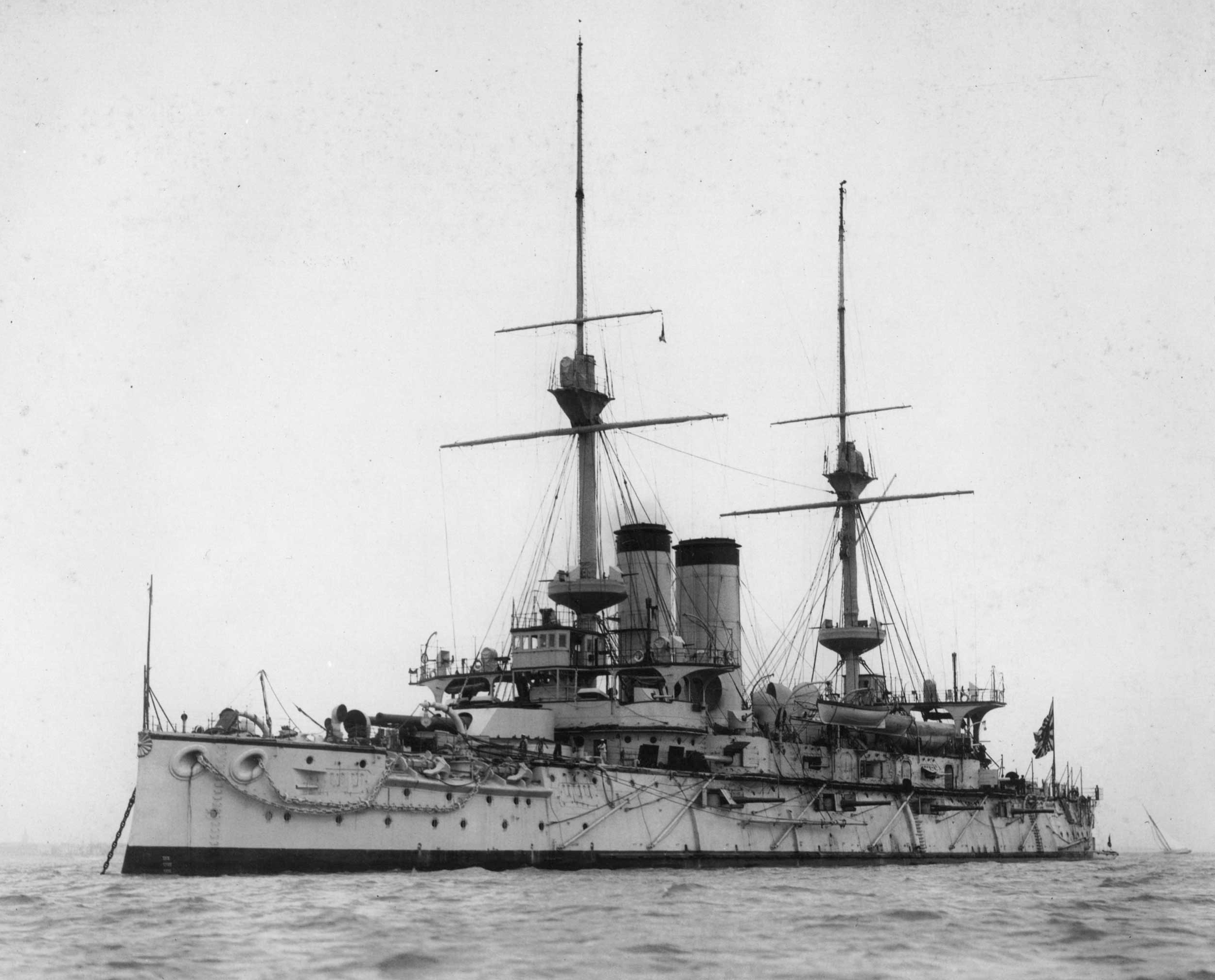 Picture of Japanese battleship Asahi, July 1900